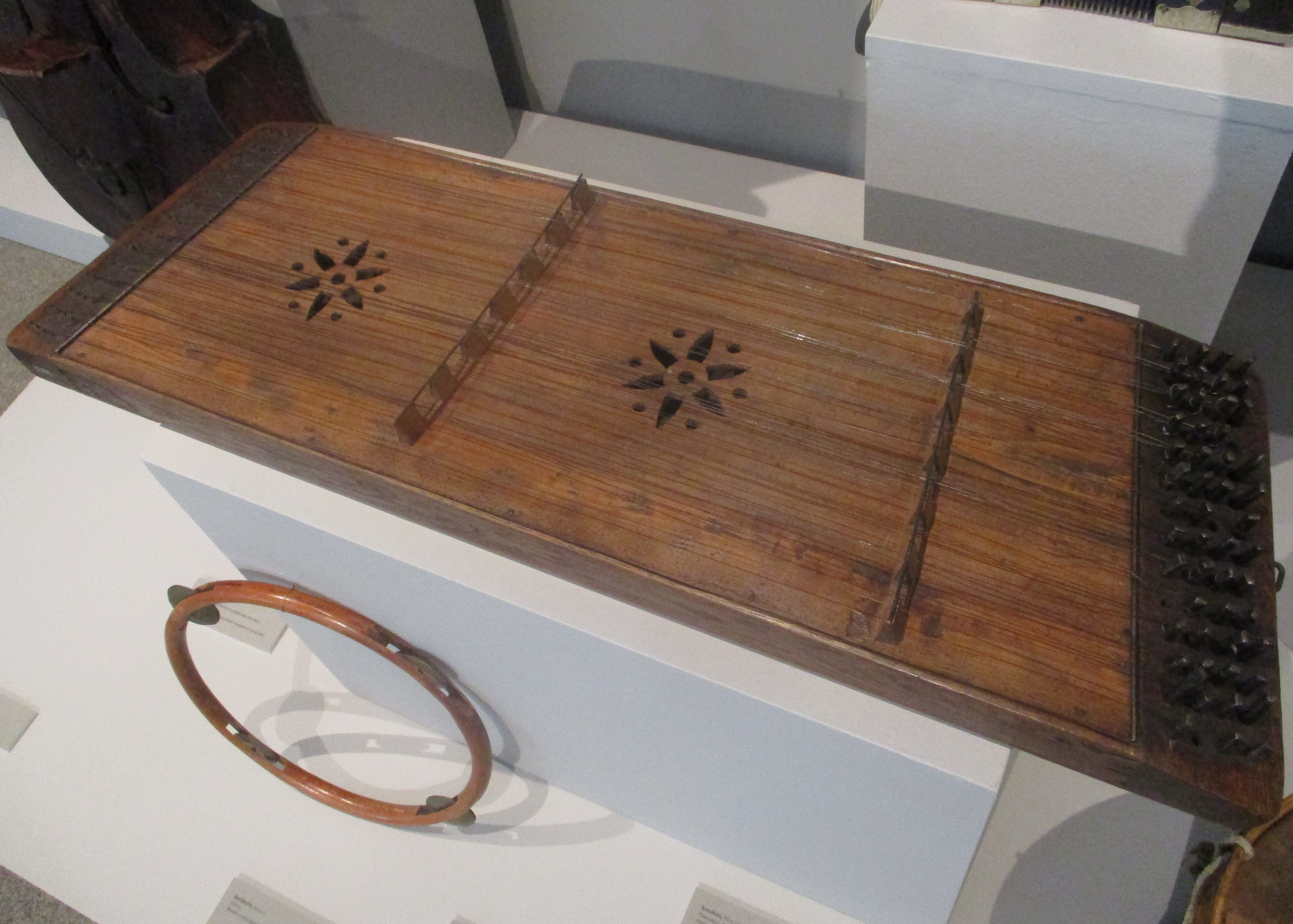 East Lithuanian cimbalom from first half of the 20th century. Property of National Museum of Lithuania.